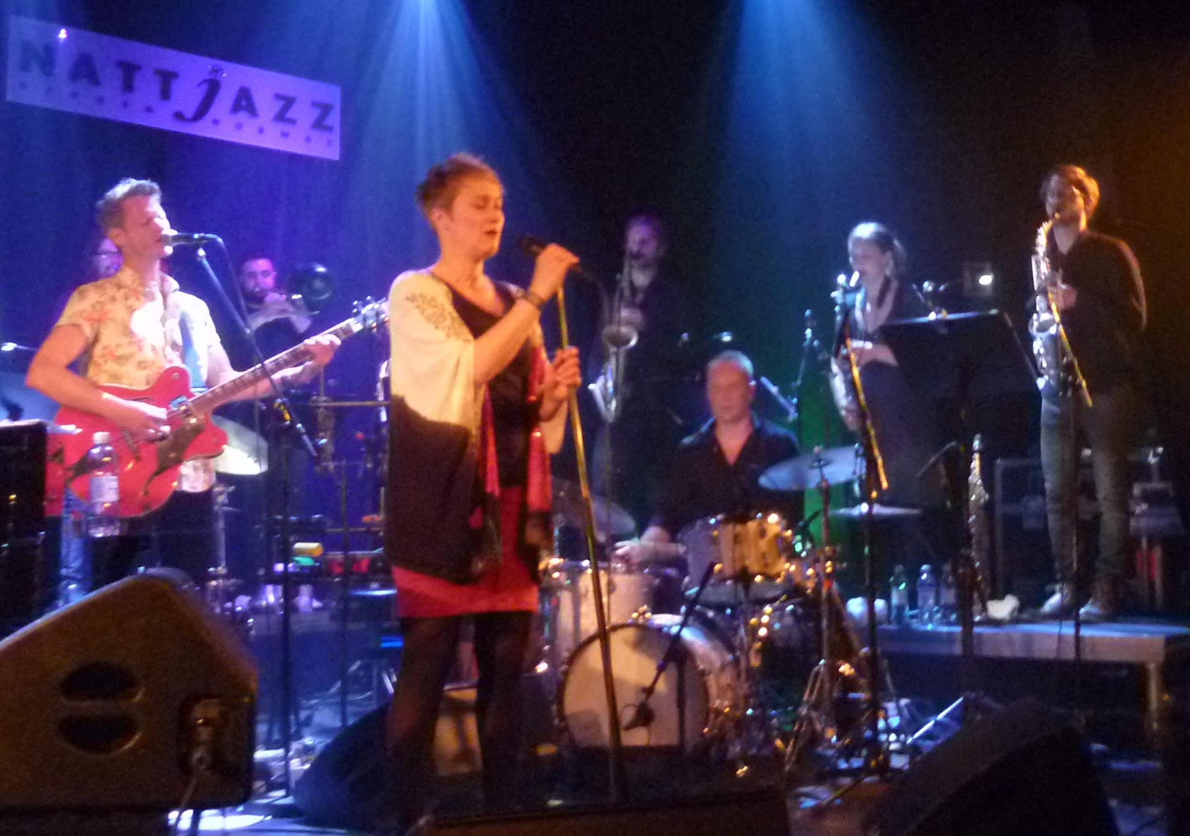 Come Shine and TJO in Bergen, Norway, at Røkeriet, USF Verftet, Nattjazz 2016.